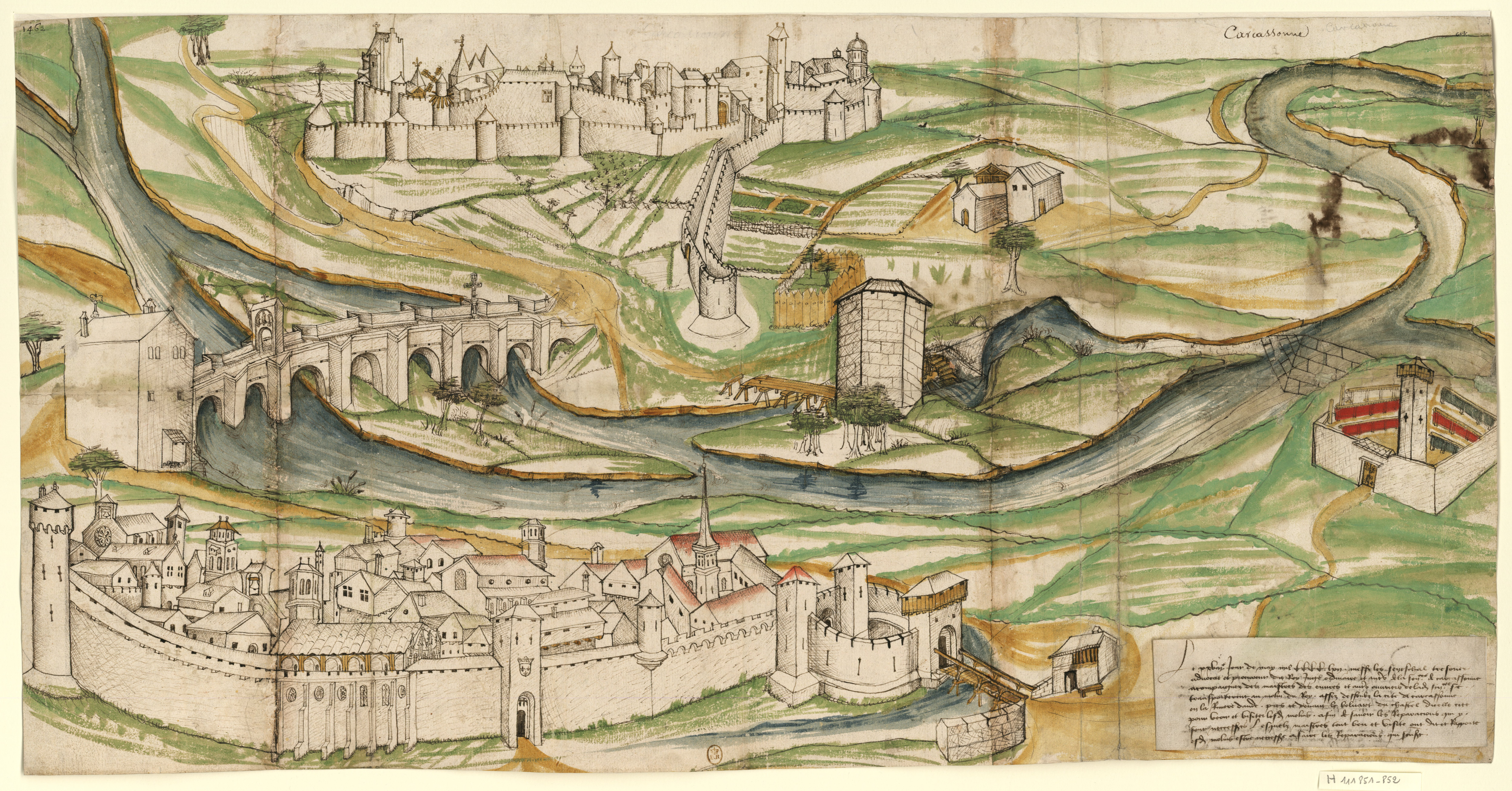 A view of the Occitan city of Carcassona (15th century)